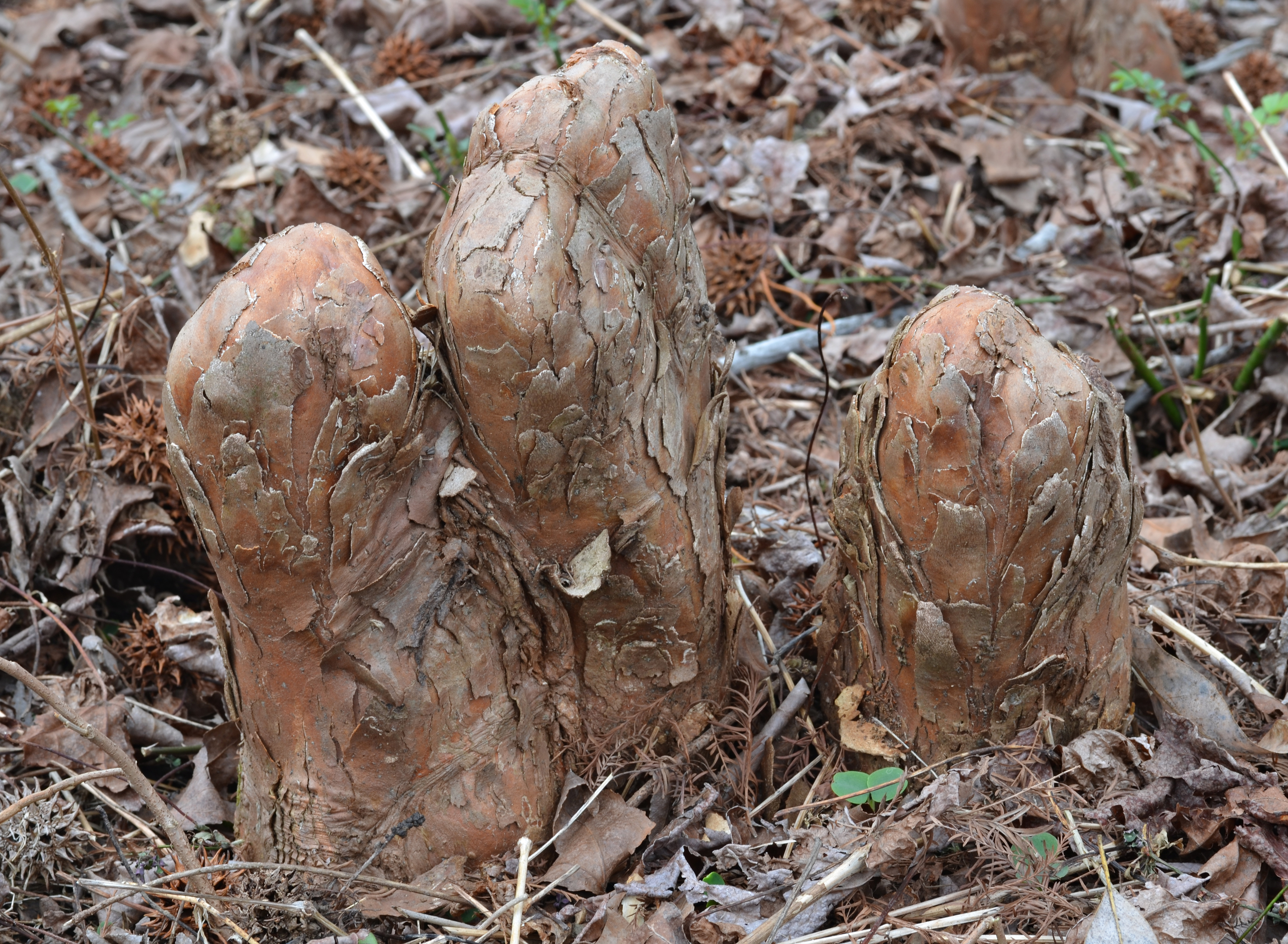 Photograph of the of the Bald Cypressen (Taxodium distichum en ). Photo taken at the Tyler Arboretum where its species was identified under accession #47-288.